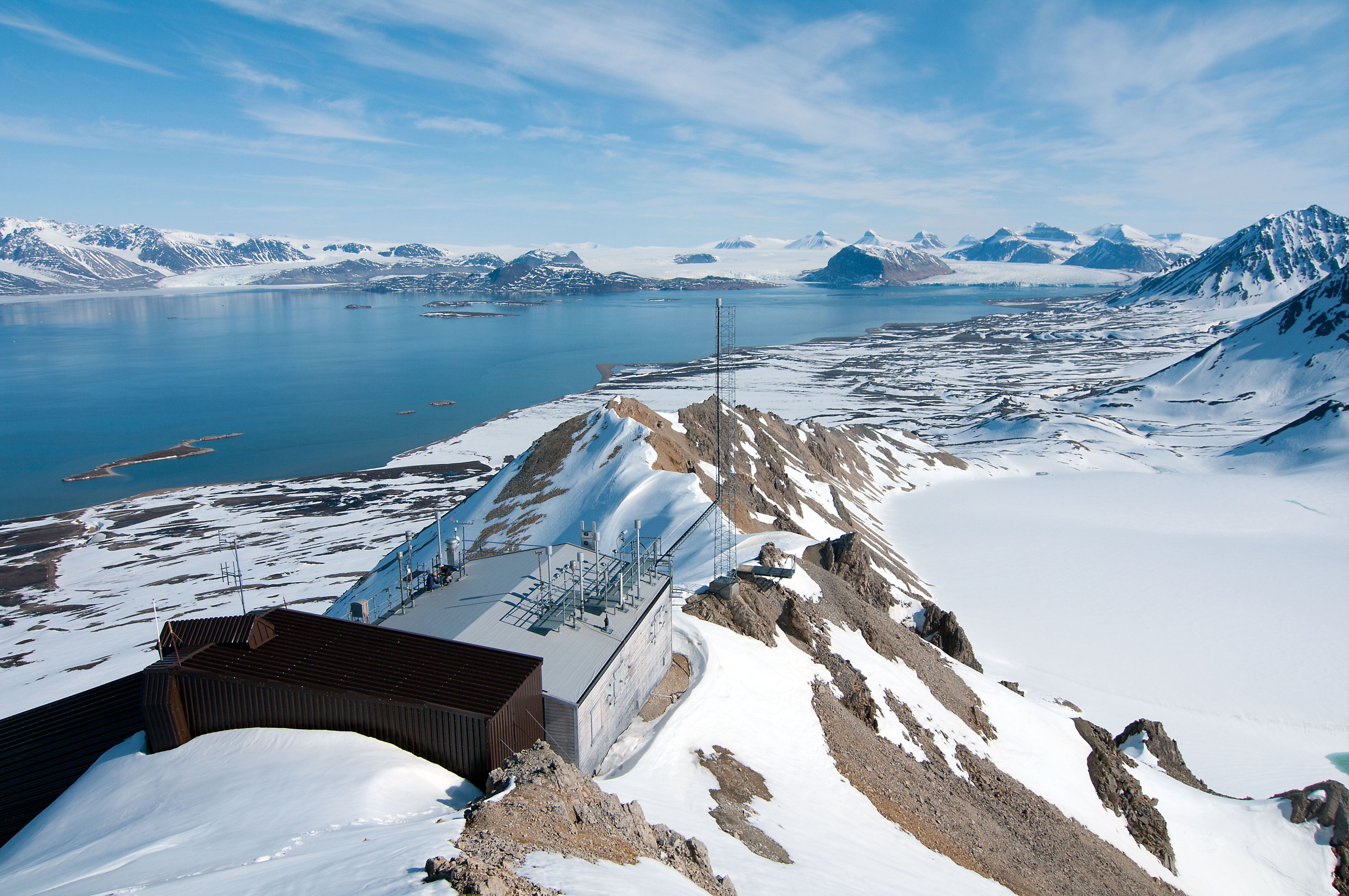 The Zeppelin Observatory on Zeppelin Mountain above Ny-Ålesund on Svalbard. Photographer is Ove Hermansen.